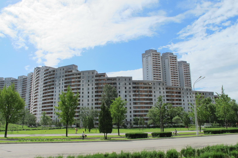 Flat in Pyongyang